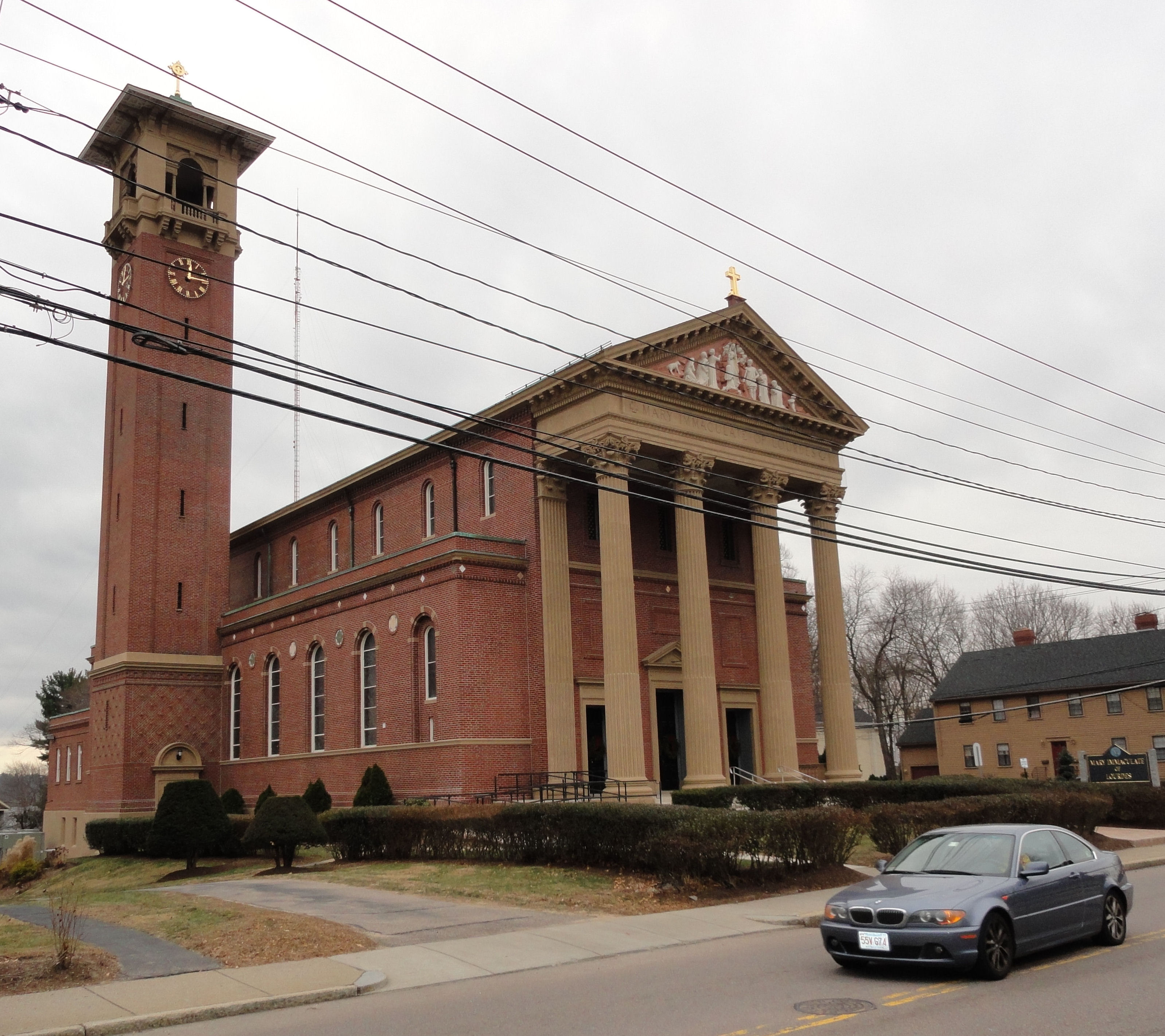 Mary Immaculate of Lourdes Church designed by Edward T. P. Graham. One of Graham's earlier church designs.